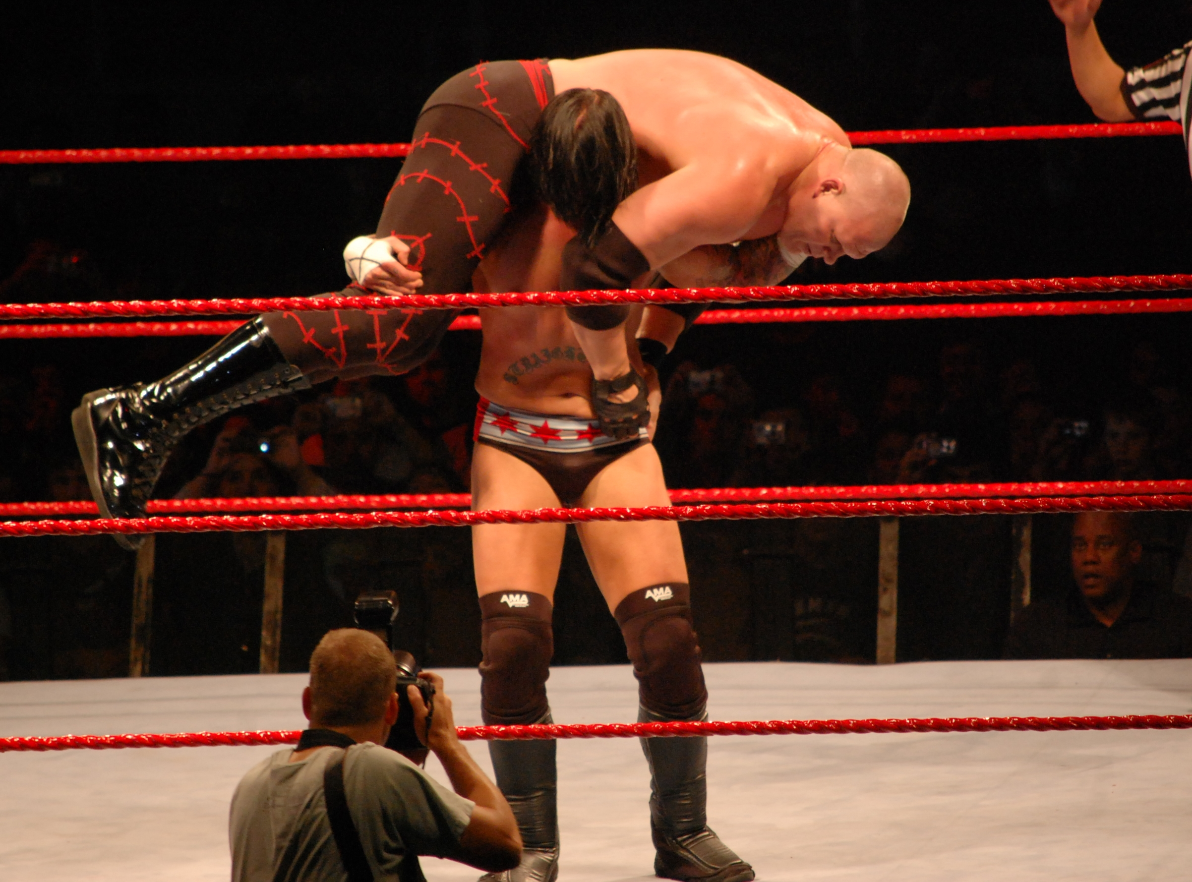 cm punk making his finisher to kane